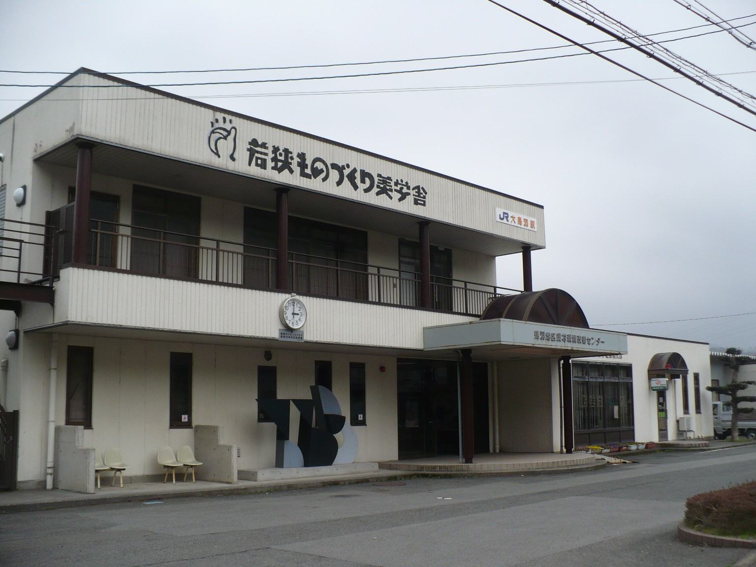 Otoba station of JR West Obama line, Wakasa, Fukui, Japan. The station facility is included in agricultural cooperative union.